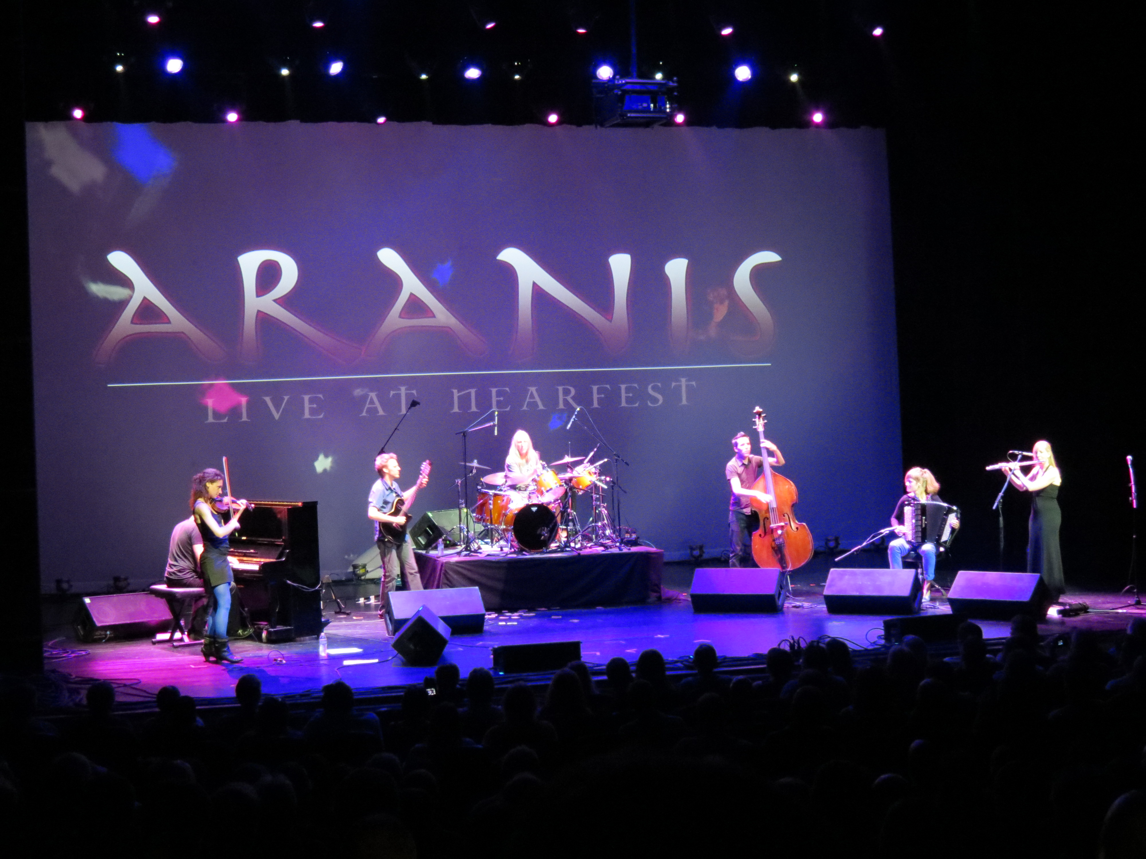 Aranis performing at NEARfest in June 2012.From left to right: Pierre Chevalier, Liesbeth Lambrecht, Stijn Denys, Dave Kerman, Joris Vanvinckenroye, Marjolein Cools, Jana Arns.